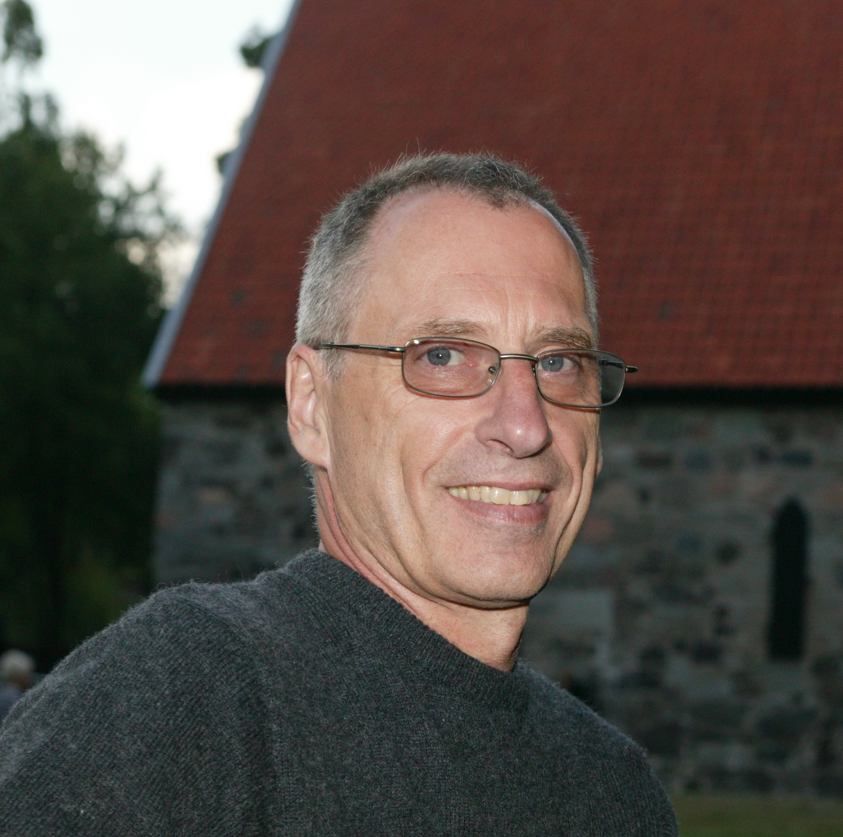 Forfatteren Kurt Aust ved Løvøy kapell.